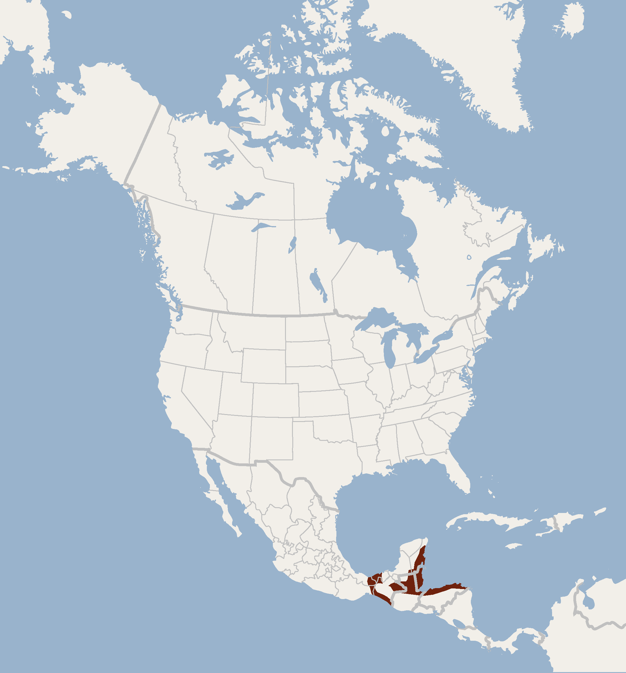 Geographical distribution of Lophostoma evotis according to Reid, 2009